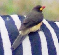 Yellow-billed Oxpecker, Buphagus africanus africanus, on a Plains Zebra in Amboseli National Park, Kenya. The time stamp is 10 hours too early.